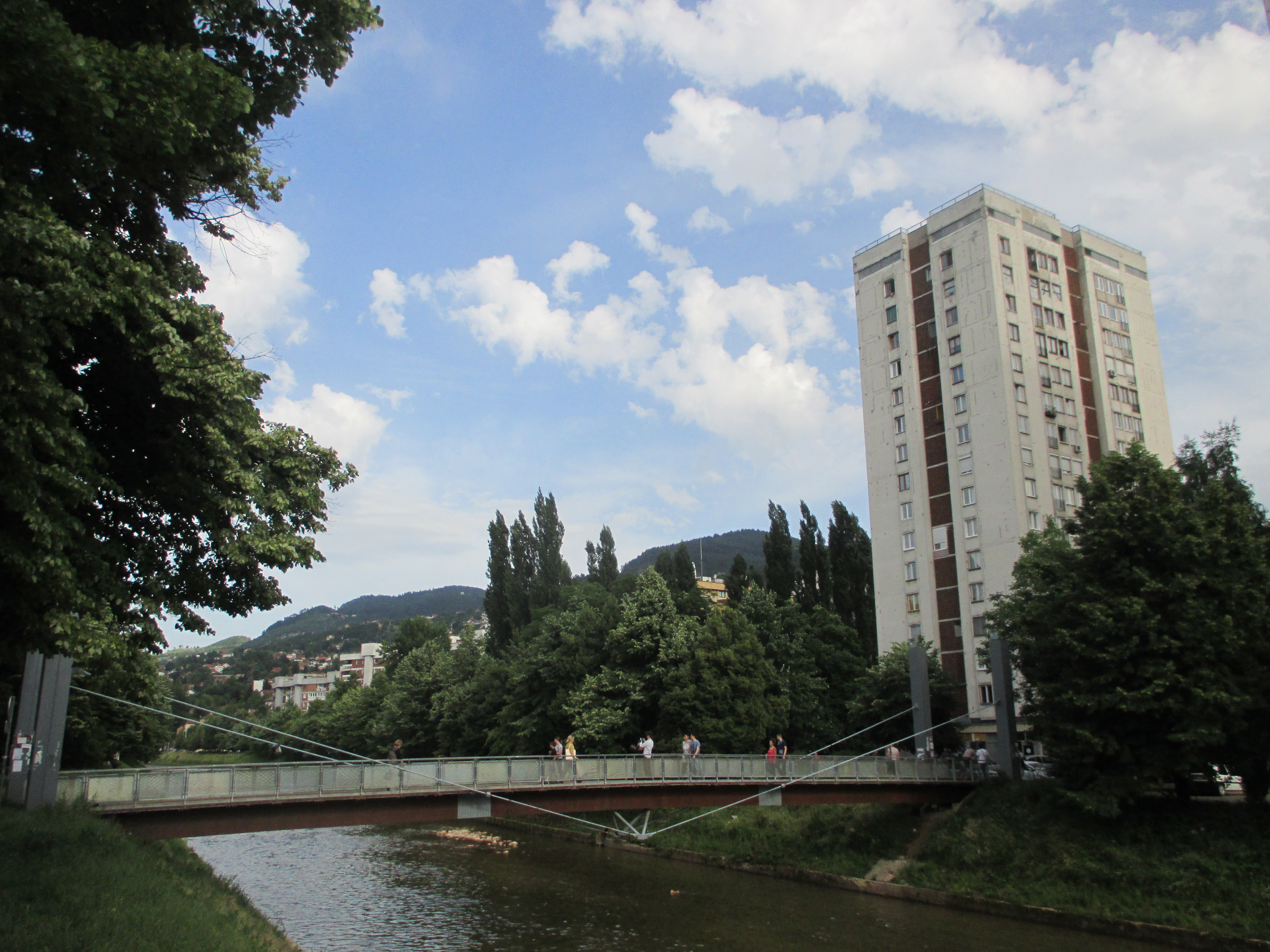 Residential high-rise buildings on the side of the Miljacka river in Grbavica (Sarajevo)